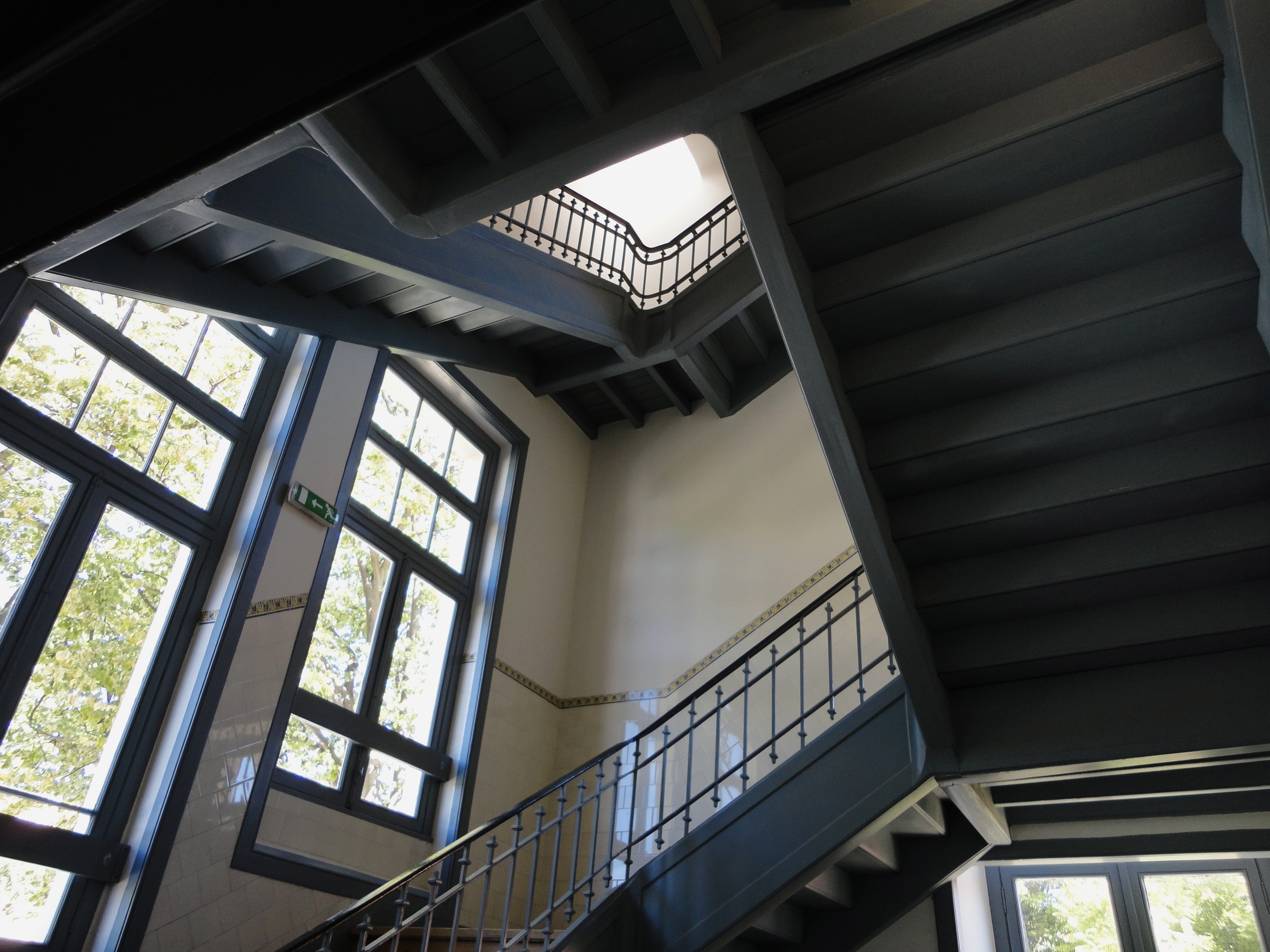 Pedro Nunes Secondary School, Lisbon, 2010 (renewed staircase)